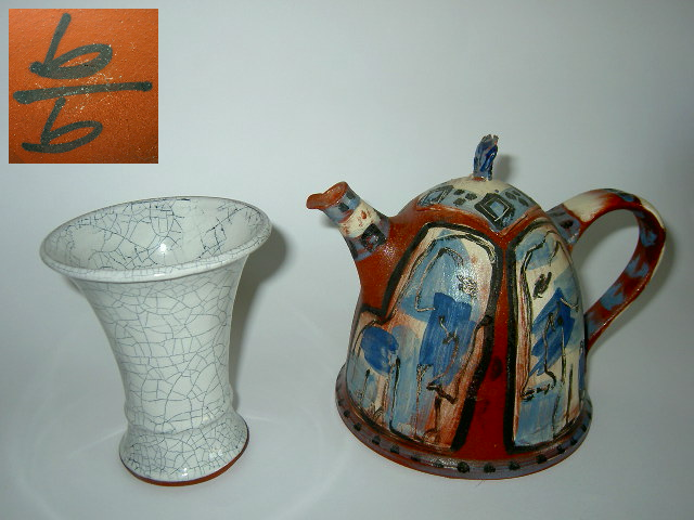 Ceramic vase and tea pot of Beate Bendel